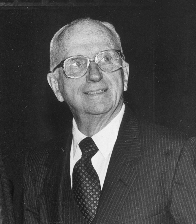 James Michener in University of Texas at Arlington Library Special Collections.